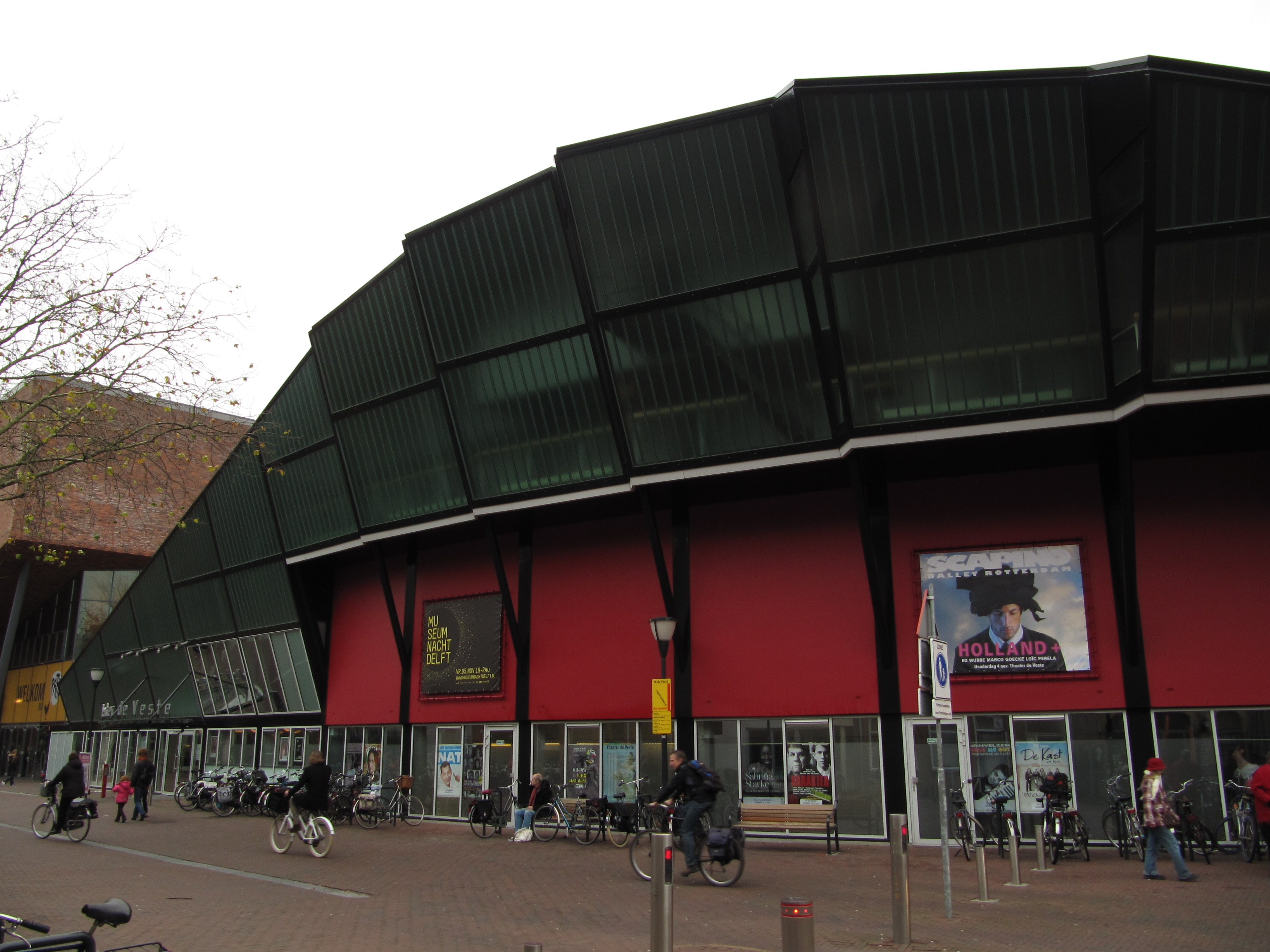 Theater de Veste